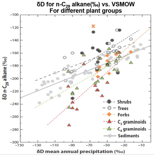 Modified from the figure in [Sachse, D et al. (2012) Molecular Paleohydrology: Interpreting the Hydrogen-Isotopic Composition of Lipid Biomarkers from Photosynthesizing Organisms. Annu. Rev. Earth Planet. Sci. 40:221-49.]